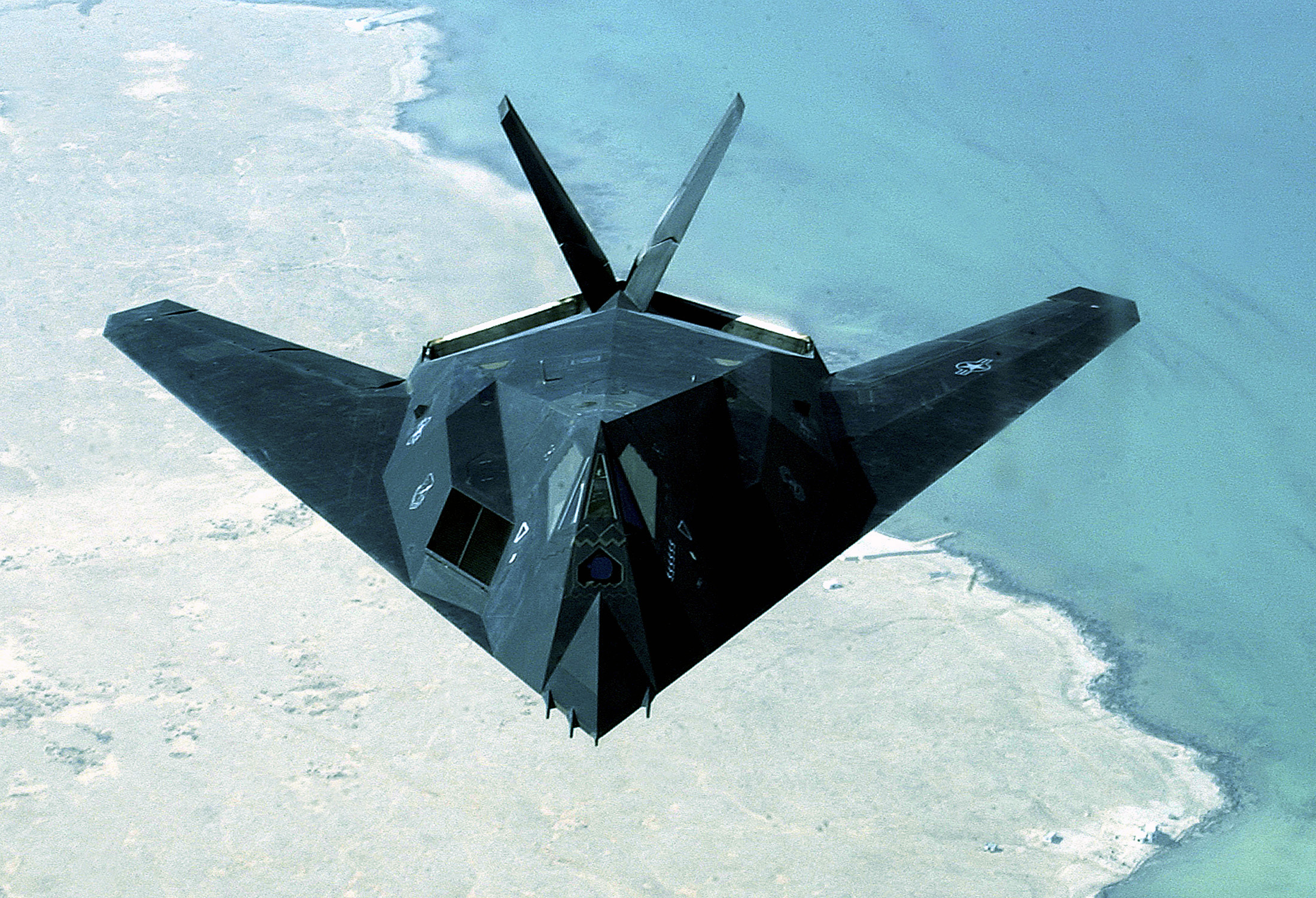 Original caption An F-117 from the 8th Expeditionary Fighter Squadron (EFS) out of Holloman Air Force Base (AFB), N.M., flies over the Persian Gulf on April 14, 2003. The 8th EFS has begun returning to Hollomann A.F.B. after having been deployed to the Middle East in support of Operation Iraqi Freedom. (U.S. Air Force photo by Staff Sgt. Derrick C. Goode) (RELEASED)